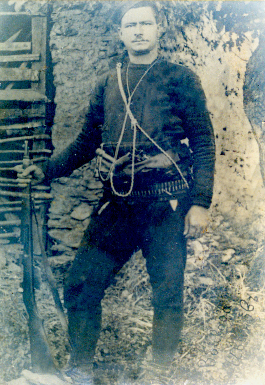 Portrait of bulgarian revolutionary from SMAC Atse Ivanov from Tsaparevo